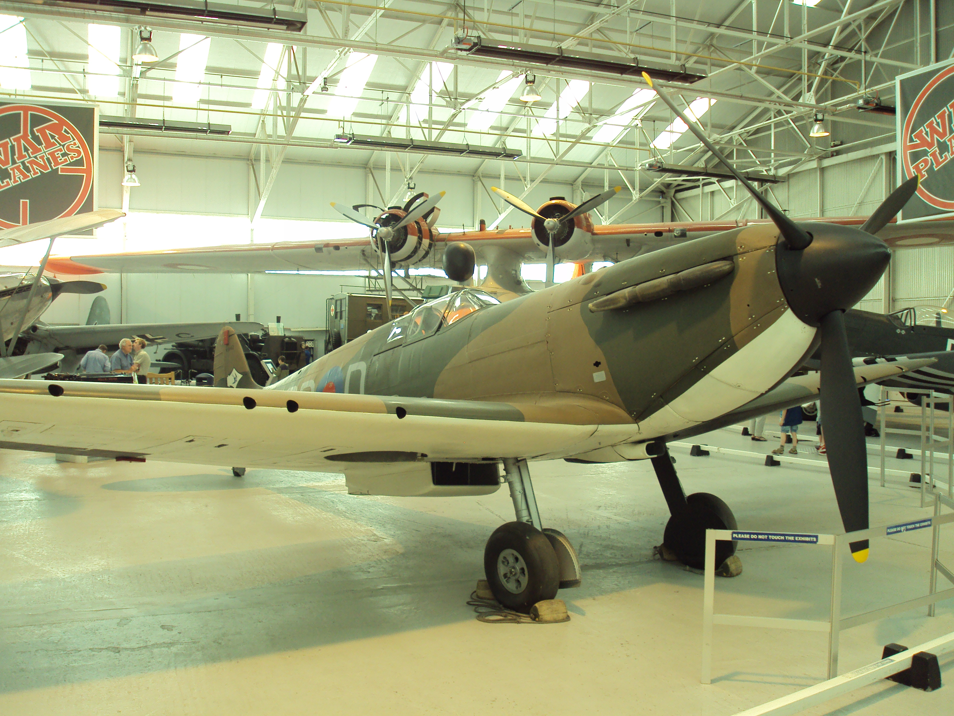 Photo of Supermarine Spitfire (foreground) and PBY Catalina aircraft (to the rear) taken at the RAF Museum Cosford, Shropshire, England.